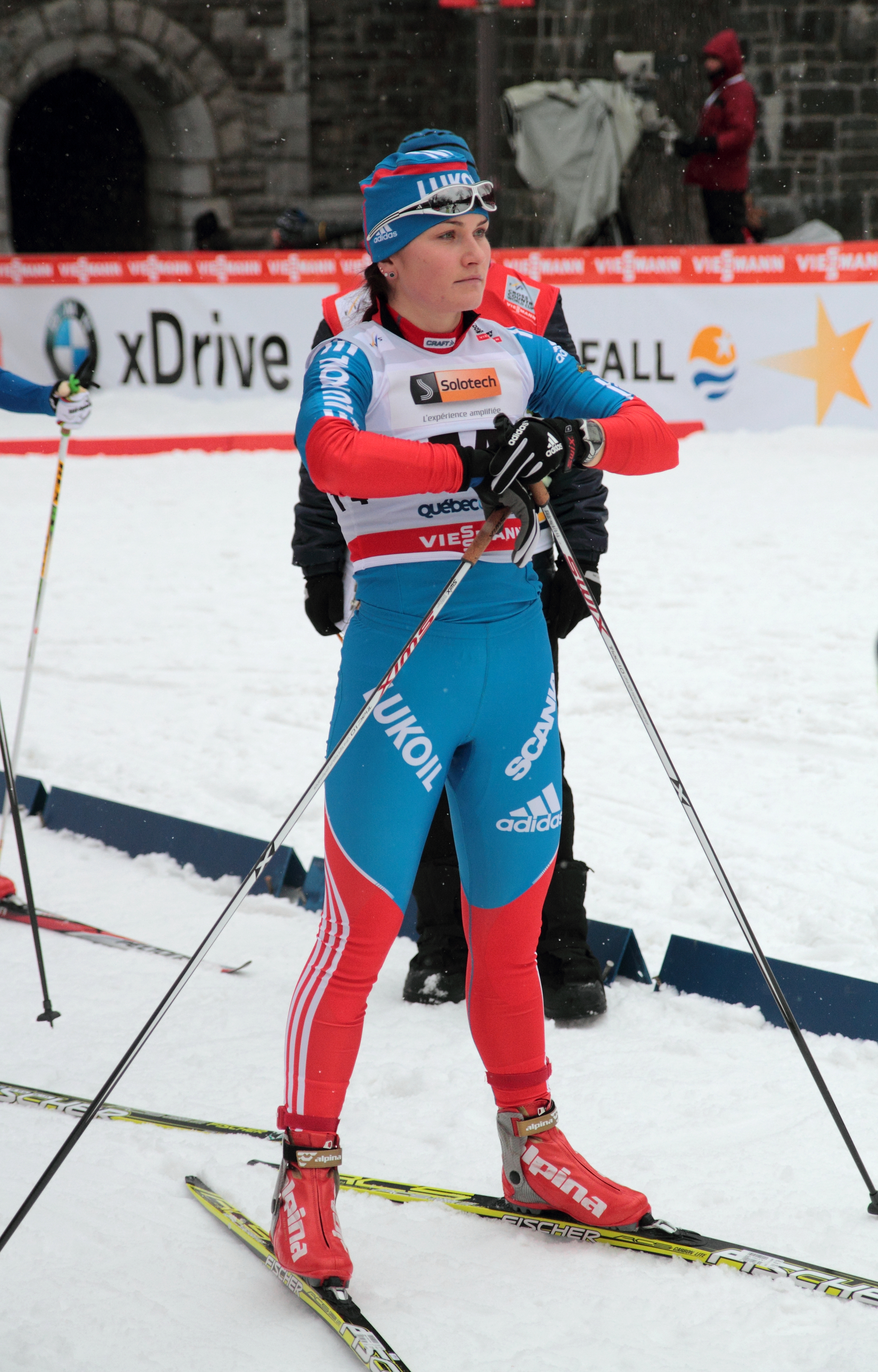 Evgenia Shapovalova, FIS Cross-Country World Cup 2012, Quebec, Canada.